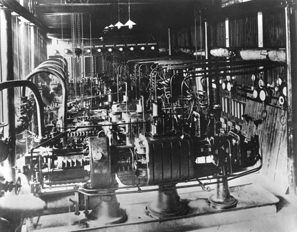 75 KW Parsons turbines at Forth Banks power station, 1892.